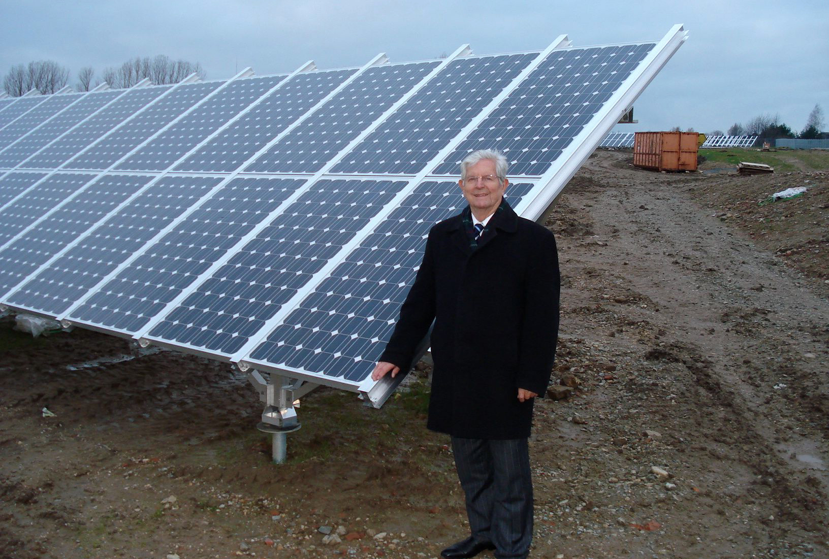 Prof. Klaus Thiessen, visiting the Solarpark of Solar Tec International in Droyssig, Germany